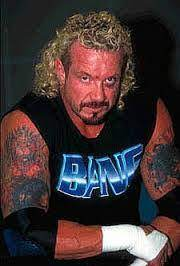 Diamond Dallas Page.